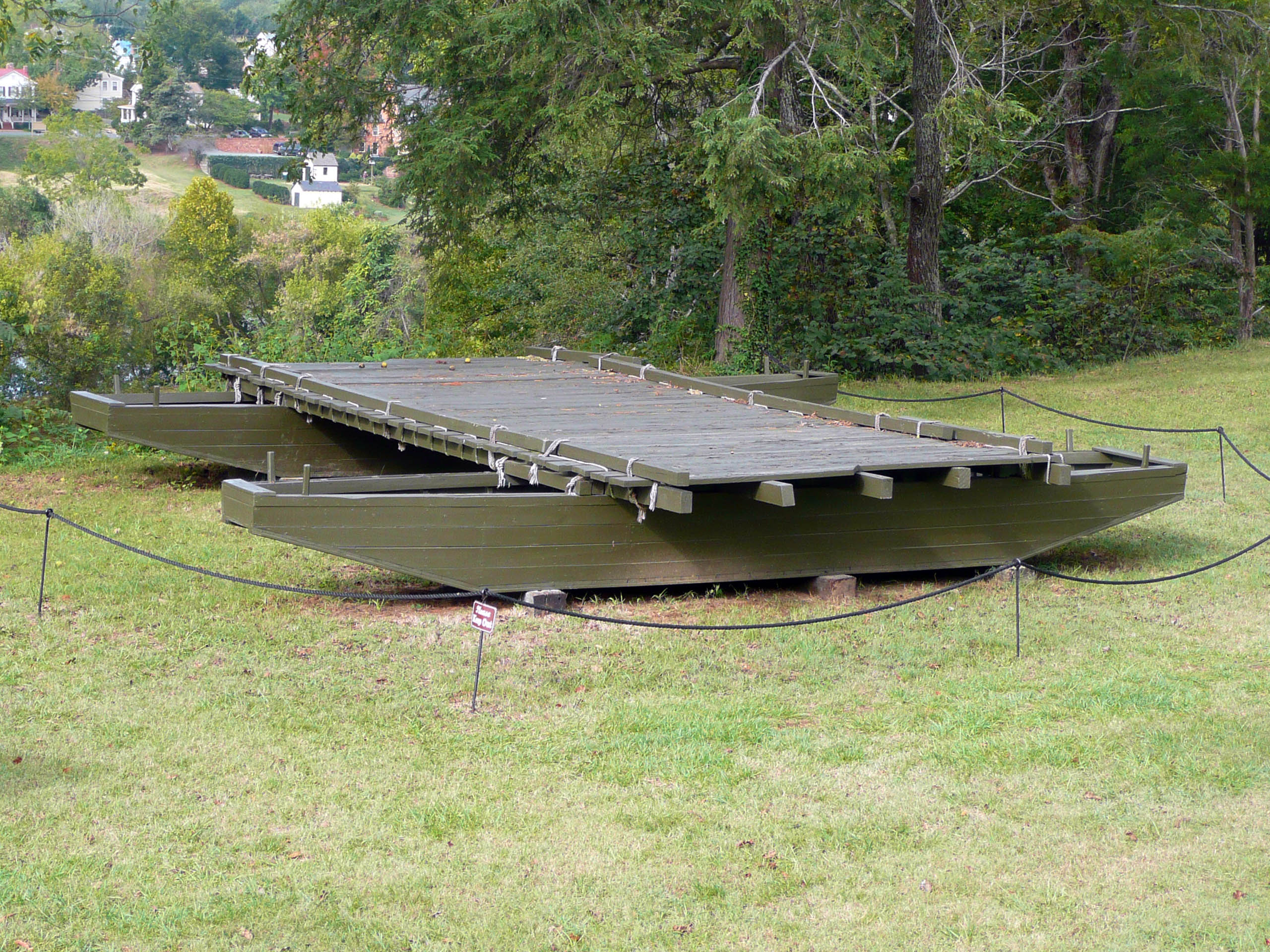 A model pontoon bridge in Fredericksburg, Virginia, typical of that used during the American Civil War Battle of Fredericksburg. This two-thirds scale model was built for the filming of the movie Gods and Generals and is now on display at the Fredericksburg and Spotsylvania National Military Park.